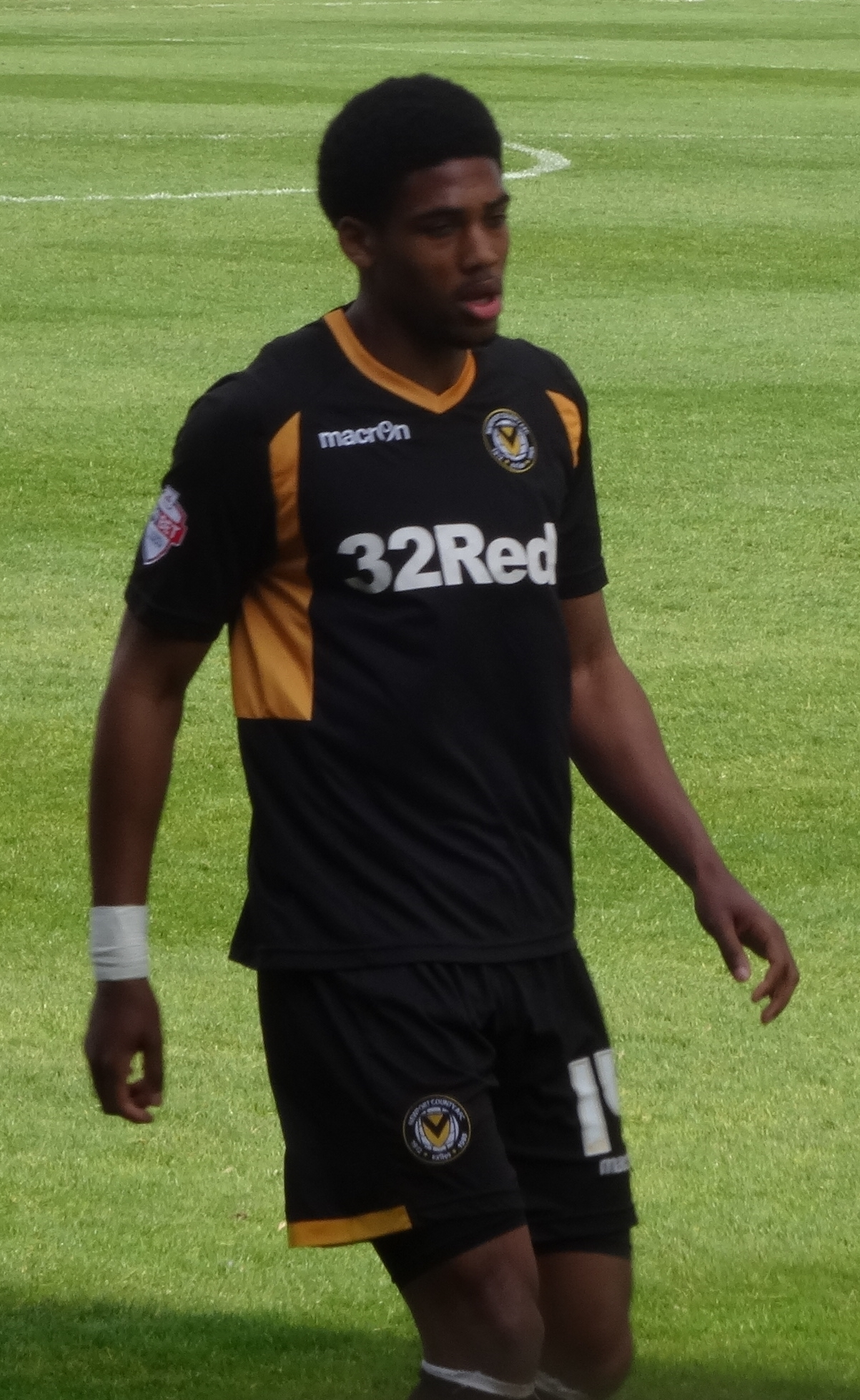 Shaun Jeffers playing for Newport County against York City at Bootham Crescent, York on 26 April 2014